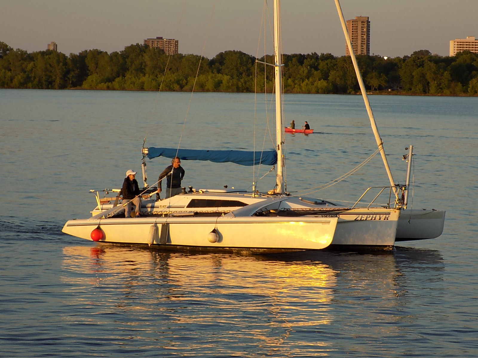 A Corsair F-27 Sport Cruiser named Zephyr.